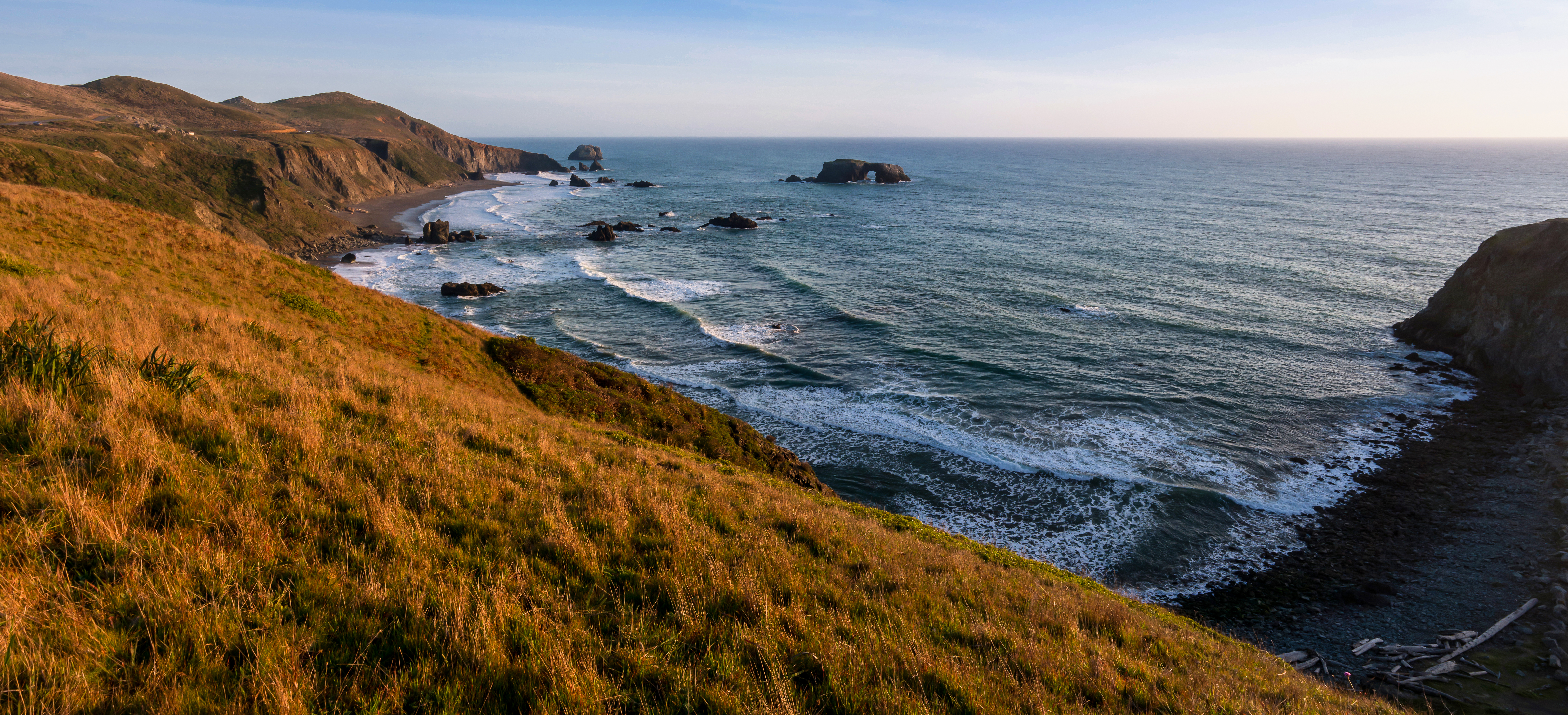 Arched Rock as seen from Goat Rock Beach, Sonoma Coast, California, United States.